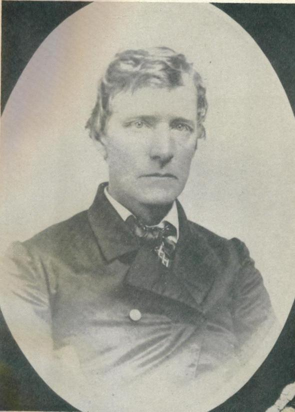 Photo of Colonel Gordon N. Peay, December 12, 1819 to December 14, 1876. First commander of the Capitol Guards, 6th Arkansas Infantry Regiment, later Adjutant General of the State, 1863-1865